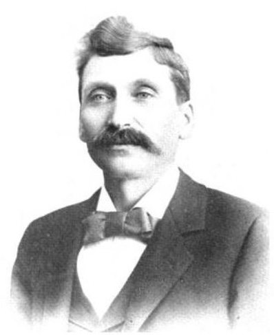 Marquette brewer Reiner Hoch